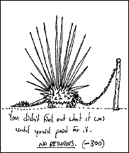 A scan of a card from the game 1000 Blank White Cards. Drawn and submitted to Wikipedia by the inventor of the game.